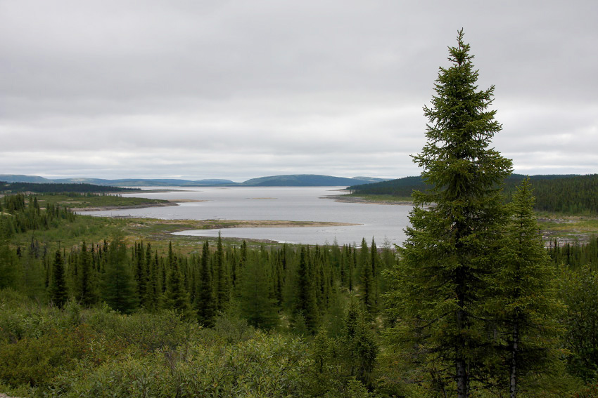 Caniapiscau Reservoir seen from Transtaïga Road